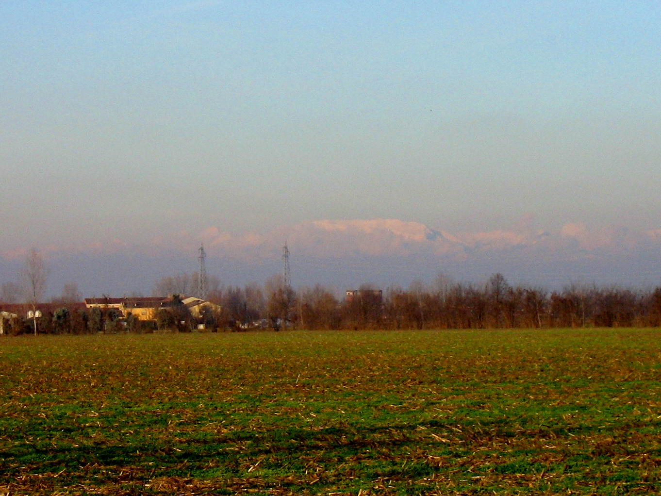 A winter view of the medium Po Valley, taken from a rural road near Castelverde, Lombardy. The snow-covered mountain in the background is Monte Guglielmo (1948 m, 6391 ft), that rises about 65 km (40 miles) away.